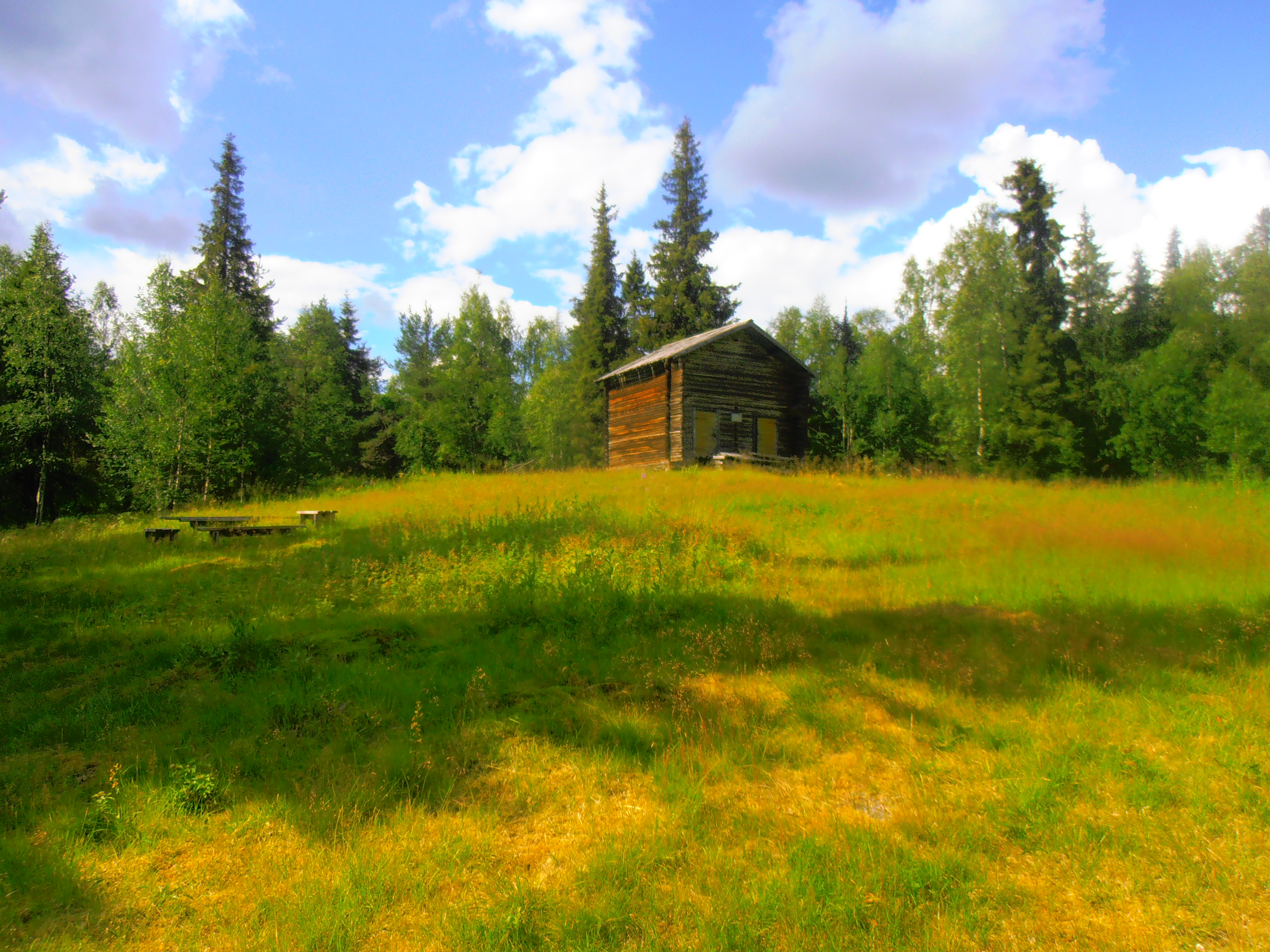 Keinosuando, Nilivaara